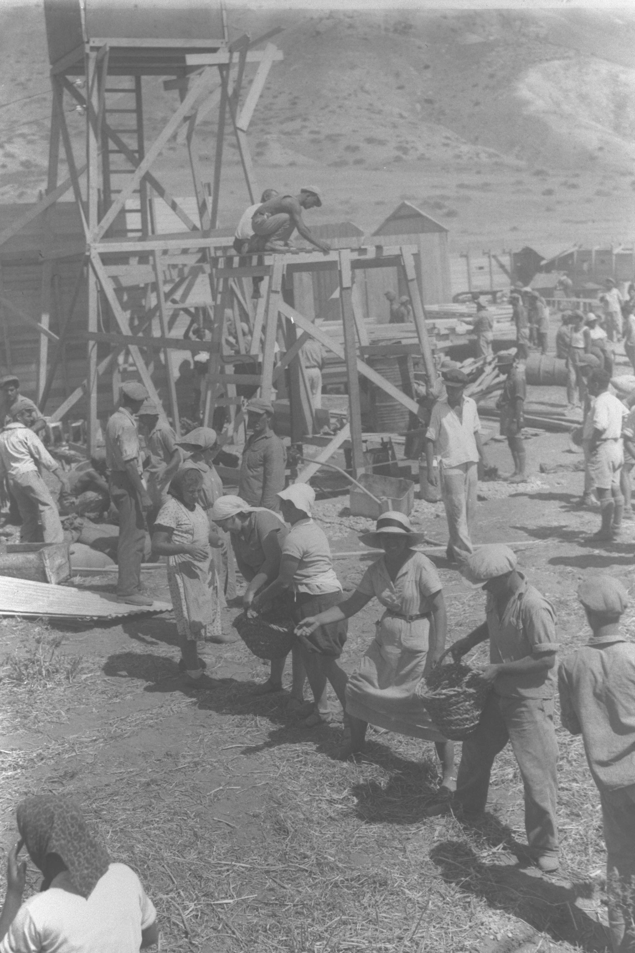 Tower and stockade. In the photo, volunteers help to establish Kibbutz Ein Gev in the Galilee.